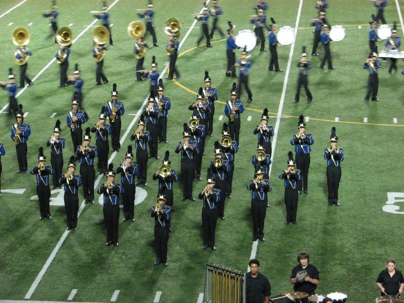 The University HS Trojan Marching Band and Colorguard performing their award-winning 2007 competitive field show.